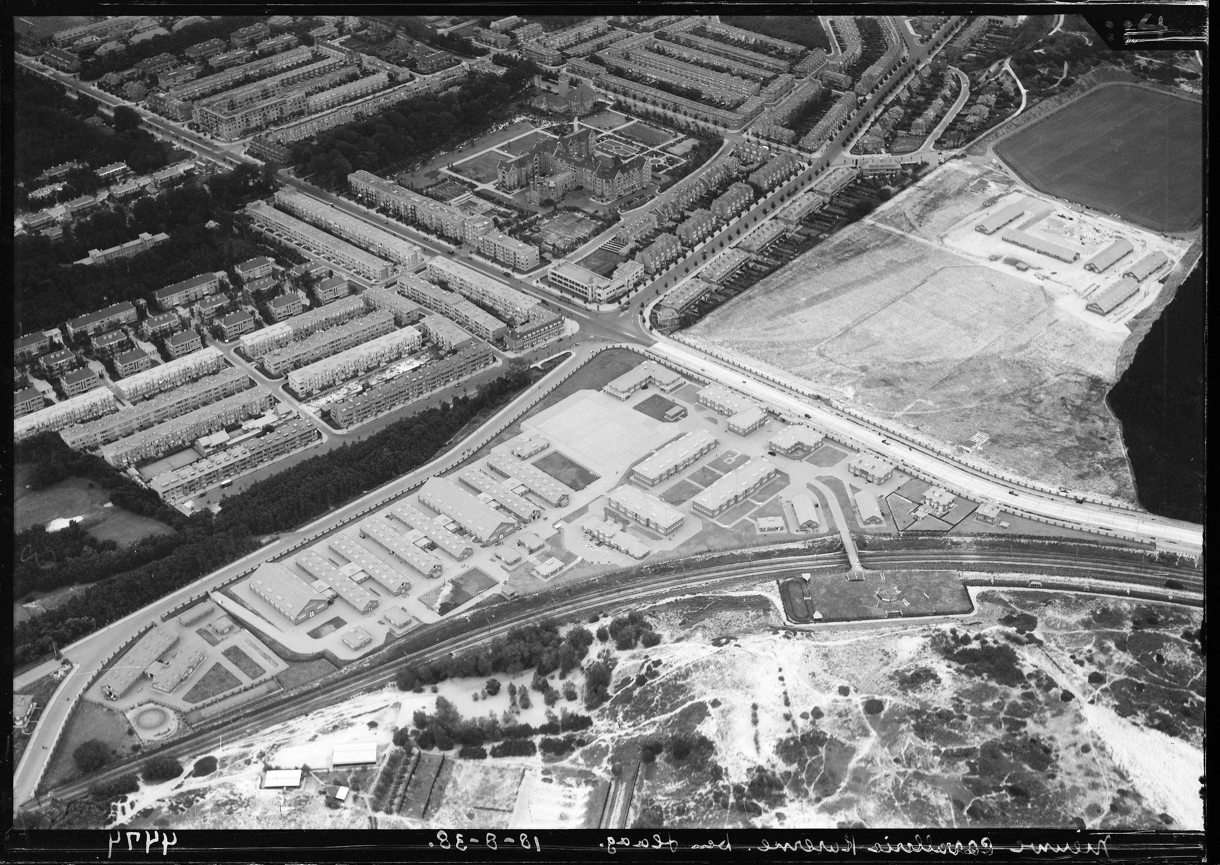 The (new) Alexander Barracks at Oude Waalsdorperweg / Van Alkemadelaan, The Hague.